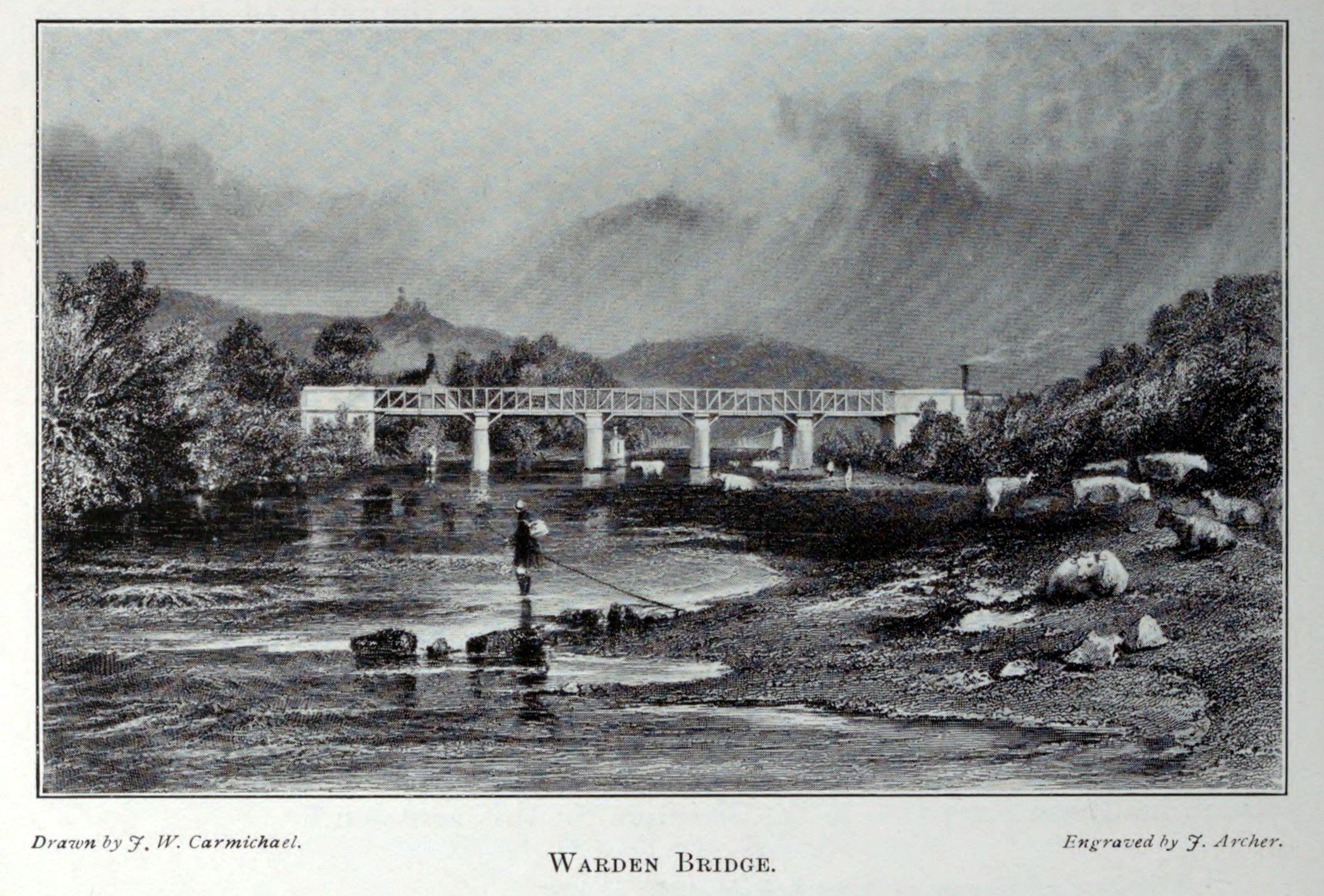 The Newcastle and Carlisle Railway originally crossed the Tyne at Warden, Northumberland by a wooden bridge with five 50 feet (15 m) spans. Marked "Drawn by JW Carmicheal and Engraved by J Archer"